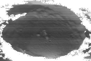 Oblique view of the interior of Despréz crater on Mercury. Broadband Wide Angle Camera, relying on reflected light off the north wall to illuminate the permanently shadowed area to the south (top), where radar-bright material suspected to be water ice is located. Emission Angle: 39.5 Incidence Angle: 88.1 Latitude: 81.3 Longitude: 258 Phase Angle: 127.6